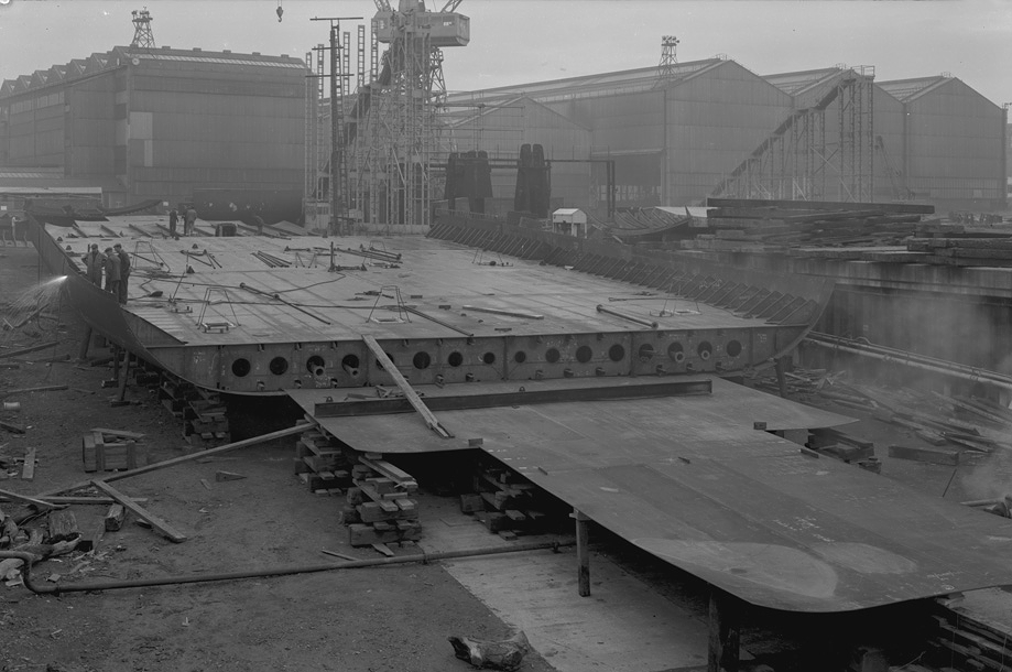 View of the double bottoms of ‘Nicola’, the first SD14 to be built by Austin & Pickersgill, Southwick Yard, 16 October 1967 (TWAM ref. DT.TUR/2/51644A). This set celebrates the ‘Nicola’, the first in a long line of standard ships designed by the Sunderland shipyard of Austin & Pickersgill Ltd. The images document her construction from October 1967 through to her completion in February 1968. The shipbuilders commissioned the Newcastle-based firm Turners (Photography) Ltd to take weekly progress shots of the ‘Nicola’ and these images have given us a unique view of her development. She was the first SD14 to be completed (the name stands for ‘Shelter Deck 14,000 tons deadweight’) and was designed as a replacement for the surviving ‘Liberty ships’, built by American yards during the Second World War. Those Liberty ships had played a vital role in the Allied victory but by the 1960s they were fast approaching the end of their working lives. The SD14 developed by Austin & Pickersgill met the demand for economic and reliable cargo ships. The simplicity of the design meant that it could be marketed by the shipbuilders at a very competitive price. It’s success is reflected by the fact that over the course of 20 years 211 ships were built to the SD14 design by Austin Pickersgill and its licensees. Sunderland can be very proud of its remarkable shipbuilding and engineering history and the SD14 is one the City’s finest achievements. (Copyright) We're happy for you to share these digital images within the spirit of The Commons. Please cite 'Tyne & Wear Archives & Museums' when reusing. Certain restrictions on high quality reproductions and commercial use of the original physical version apply though; if you're unsure please